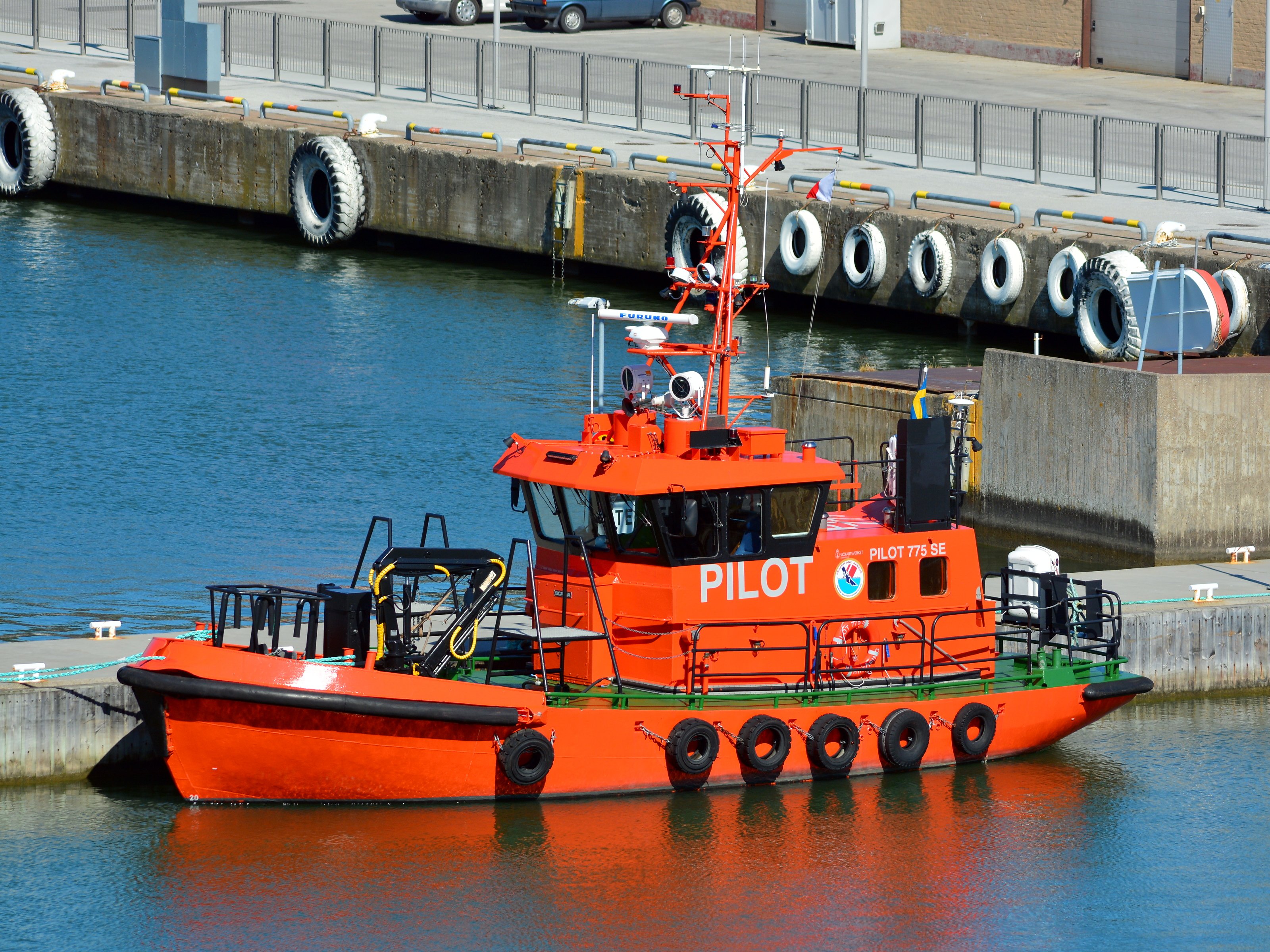 Pilot 775 SE in Visby